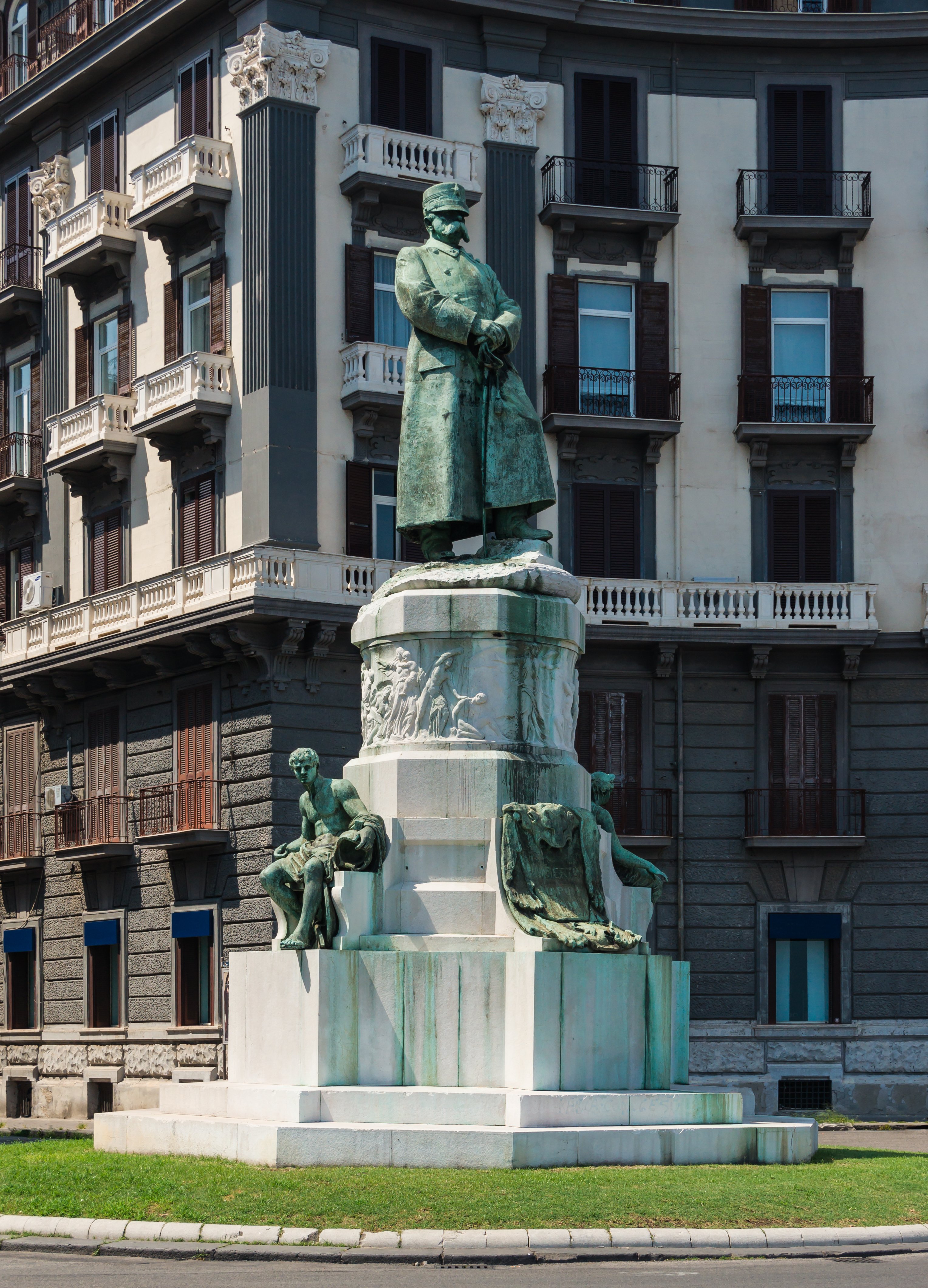 Monument to king Umberto I of Italy, by Achille d'Orsi, Naples, Italy.